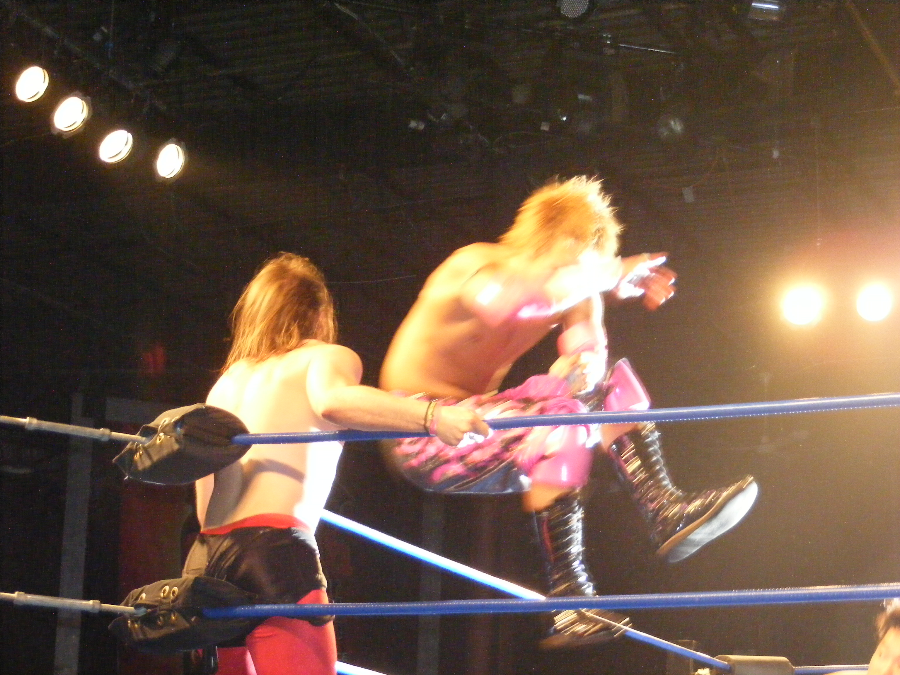 Professional wrestler Atsushi Kotoge charging on Colin Delaney at Chikara King of Trios 2010.